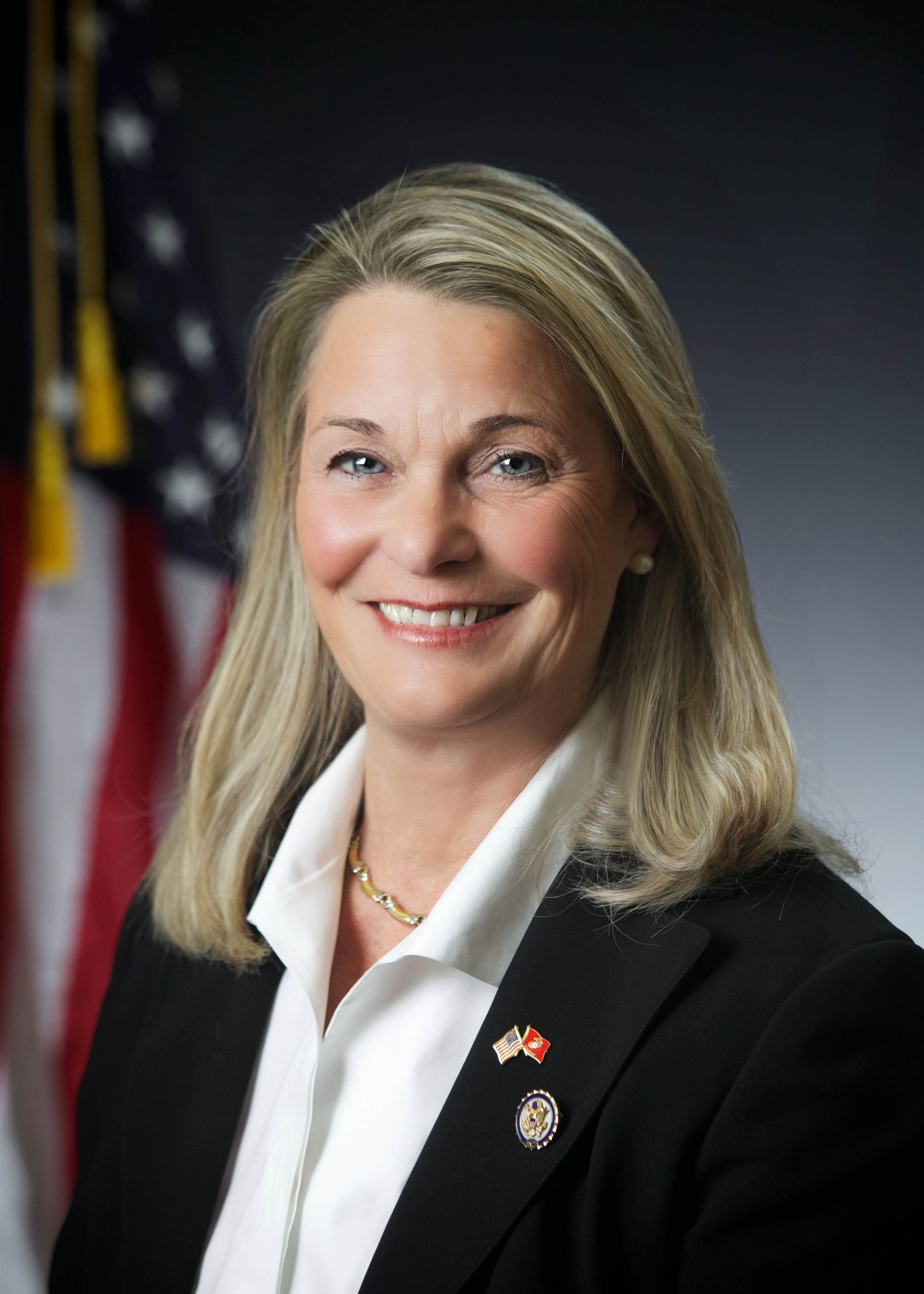 Official portrait of US Rep. Ann Marie Buerkle